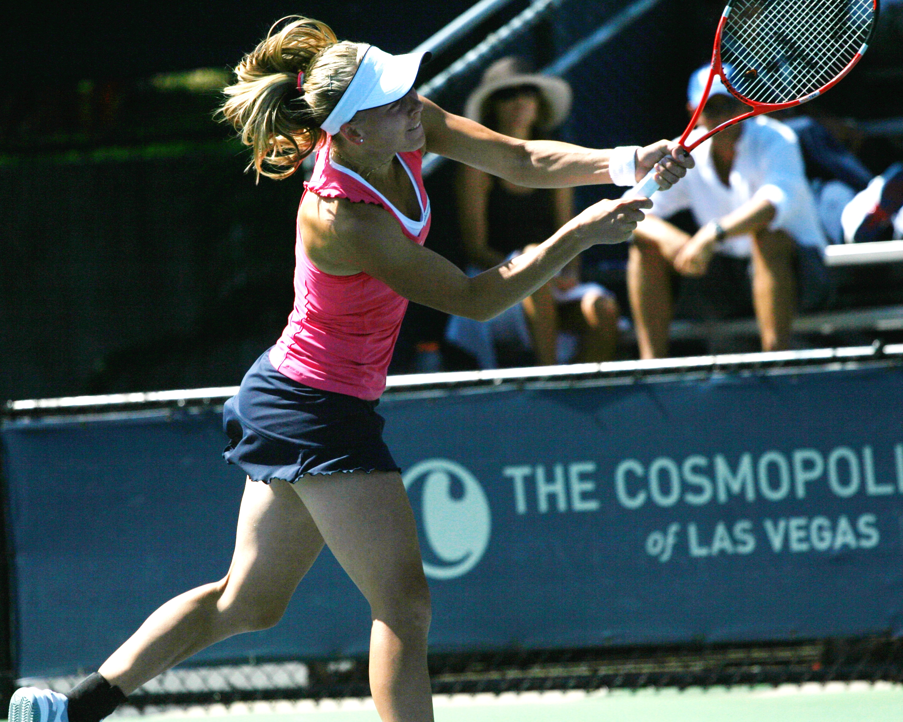 U.S. Open Monday, Aug. 30, 2010